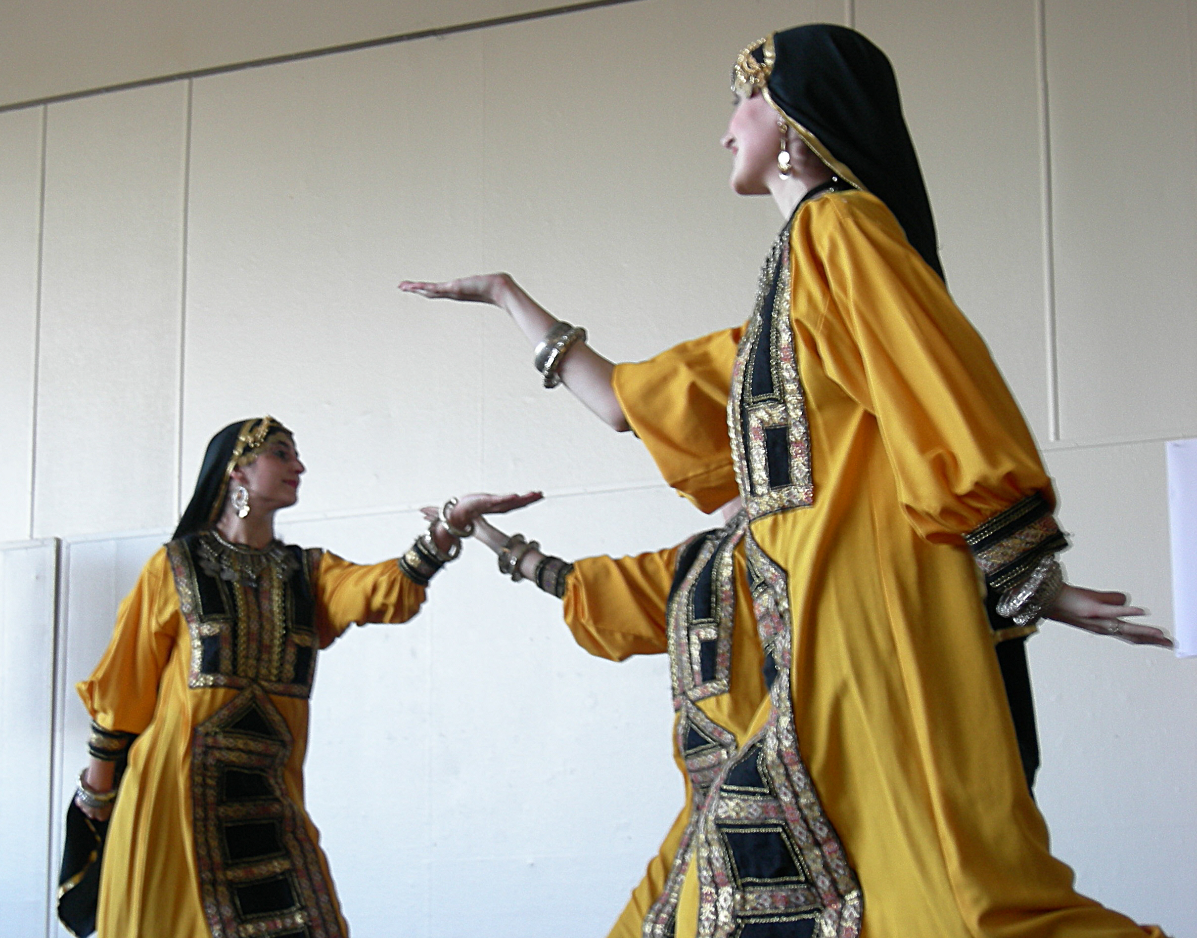 Karavan Dance Group, Iranian Festival, Seattle Center Pavilion, Seattle, Washington